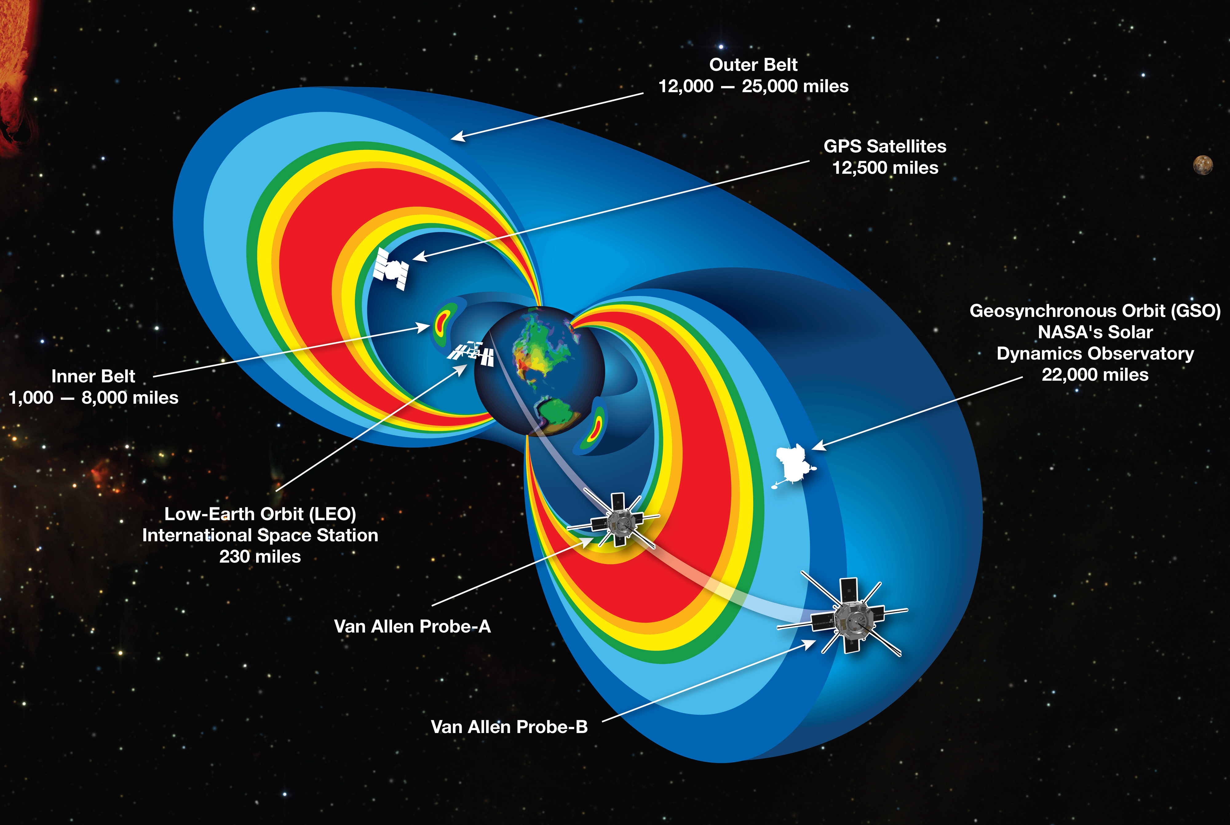 A cutaway model of the radiation belts with the 2 RBSP satellites flying through them. The radiation belts are two donut-shaped regions encircling Earth, where high-energy particles, mostly electrons and ions, are trapped by Earth’s magnetic field. This radiation is a kind of “weather” in space, analogous to weather on Earth, and can affect the performance and reliability of our technologies, and pose a threat to astronauts and spacecraft. The inner belt extends from about 1000 to 8000 miles above Earth’s equator. The outer belt extends from about 12,000 to 25,000 miles. This graphic also shows other satellites near the region of trapped radiation.